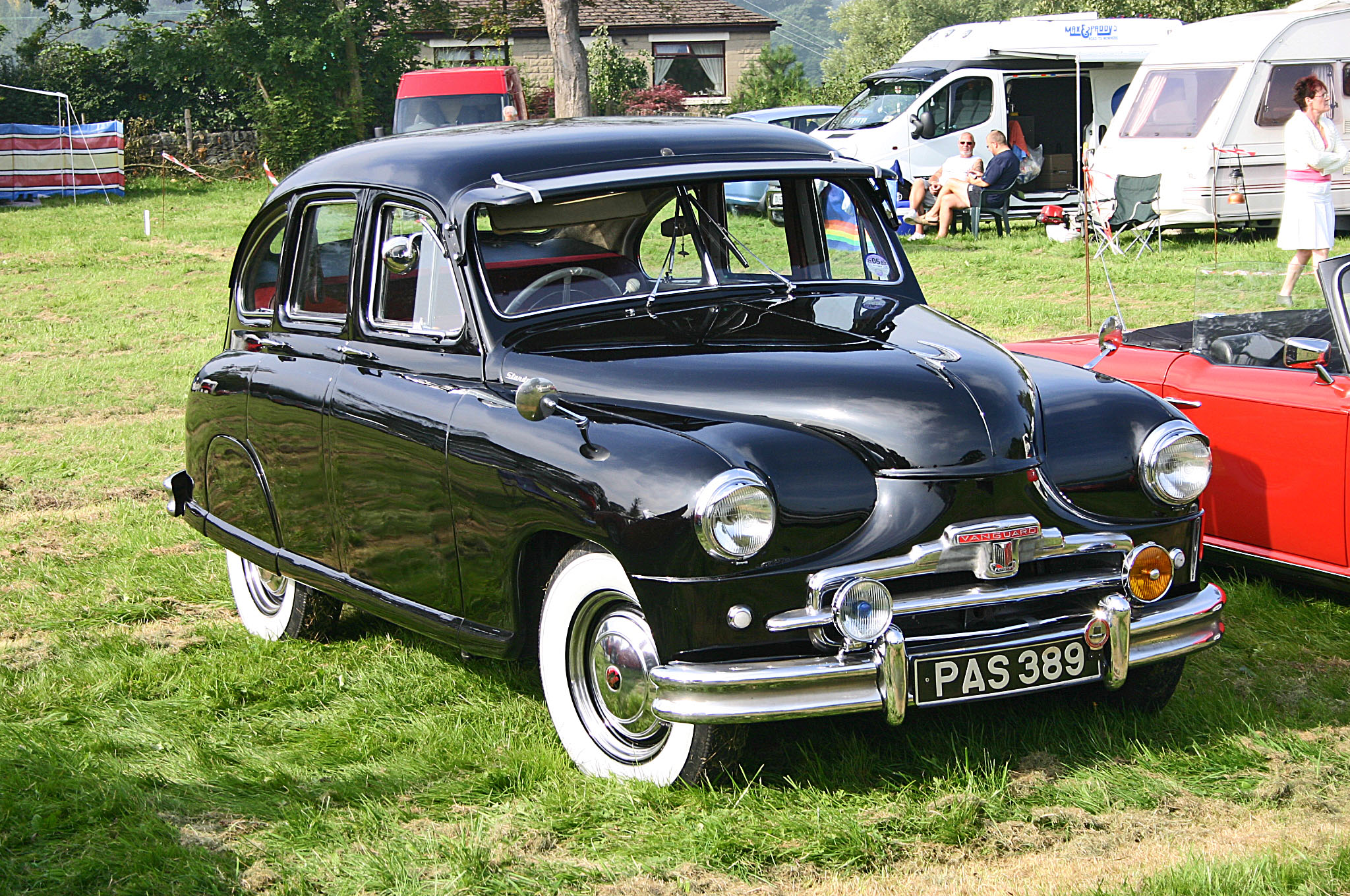 The Standard Vanguard Phase 1A, this was a slightly remodelled version of the Phase I with a simpler grille